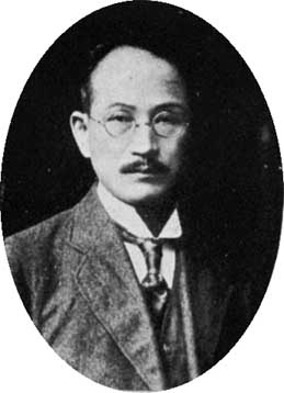 Matajirō Watanabe, 1st director of the Mito Higher School.